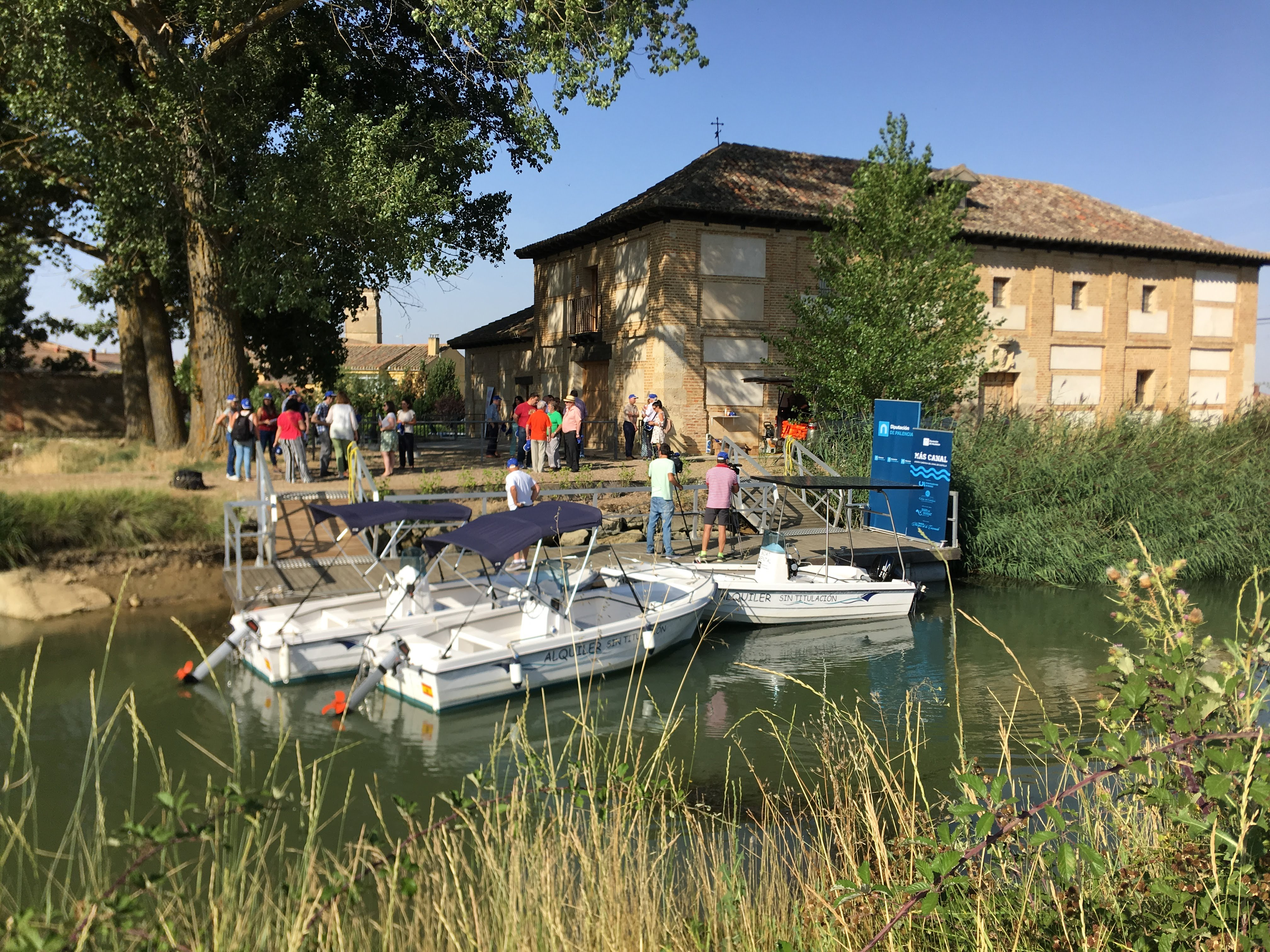 boat rental Villaumbrales (Palencia )